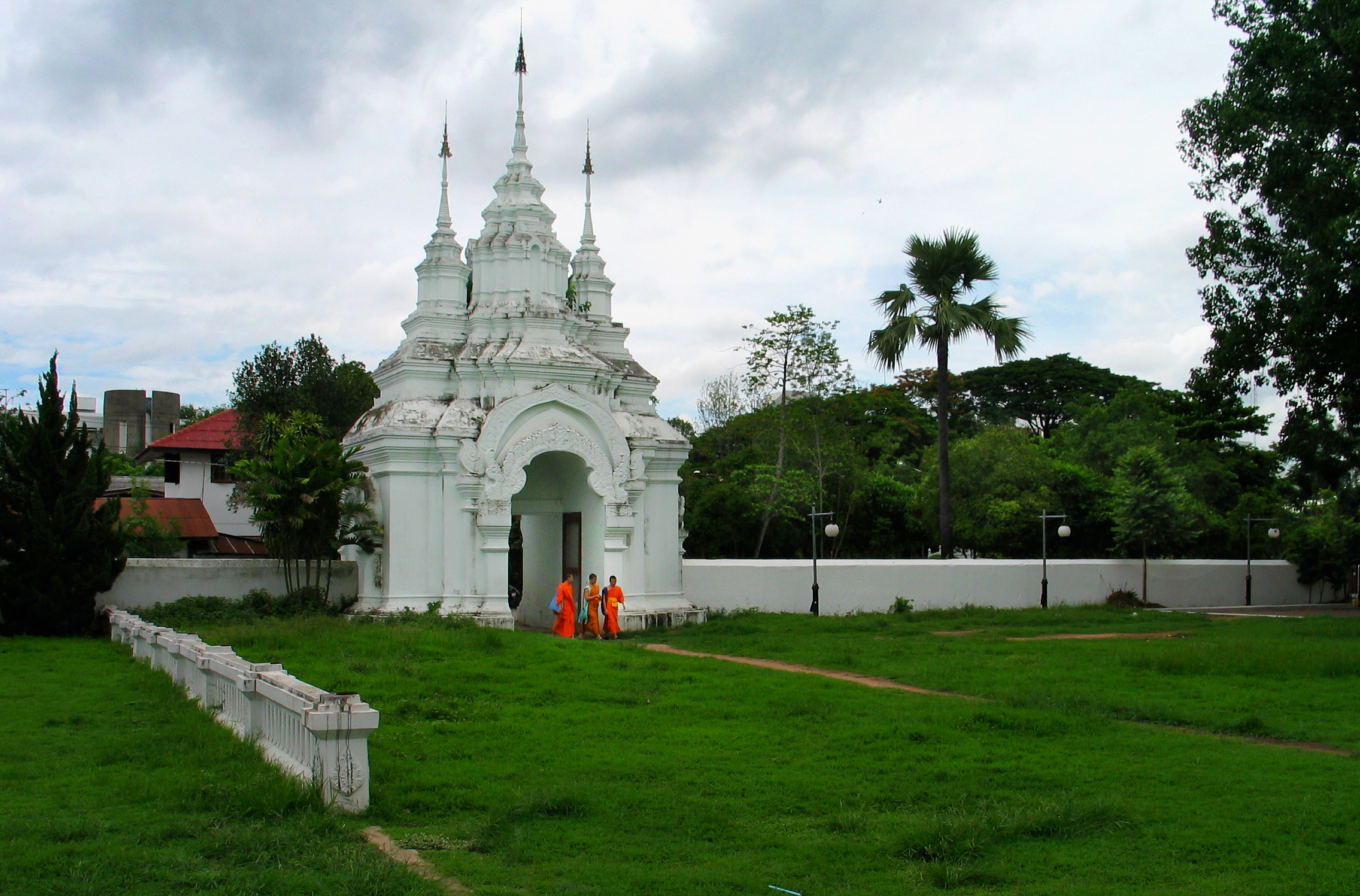 Entrance gate to Wat Suan Dok, Chiang Mai, northern Thailand